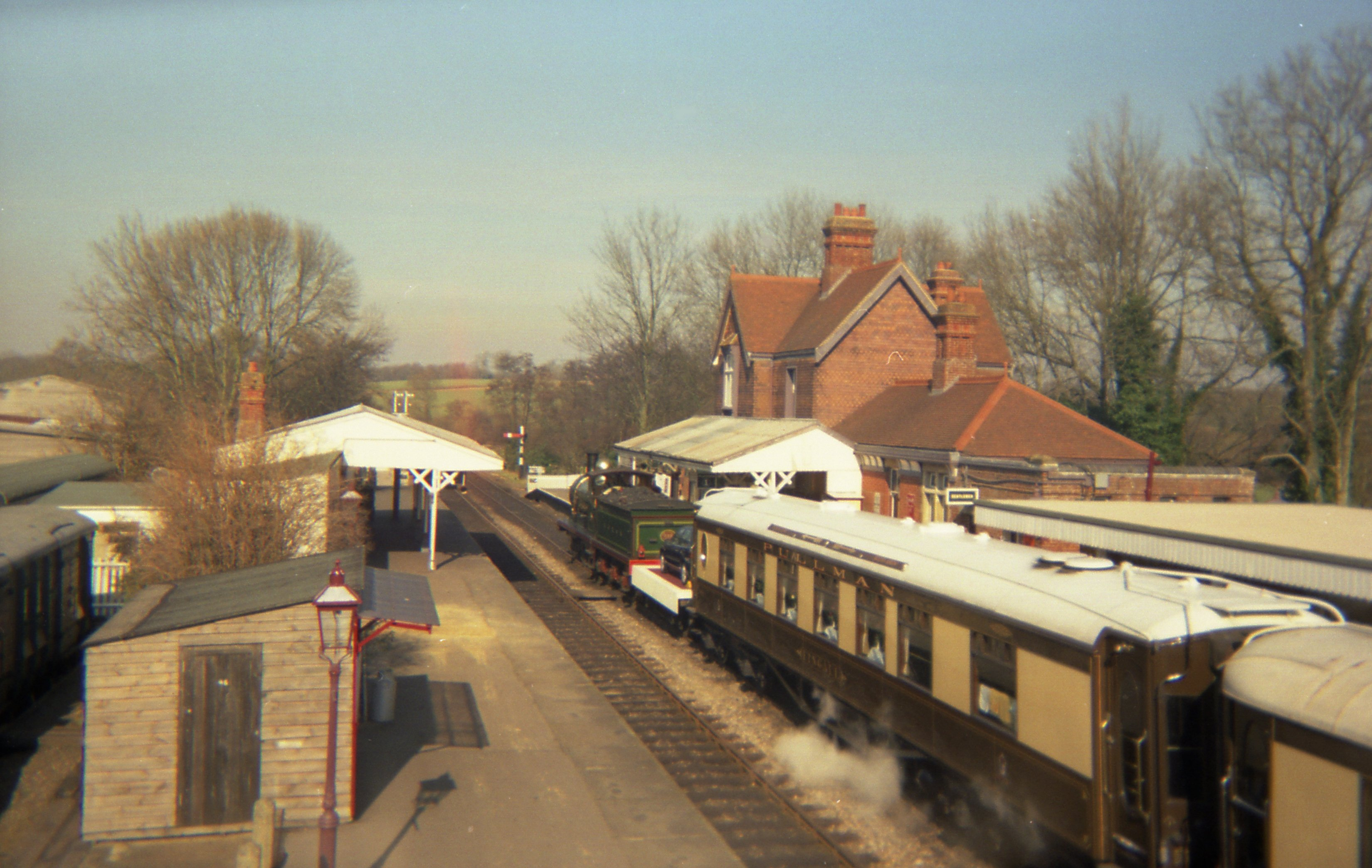 Sheffield Park Station on the Bluebell Railway the setting for this winter shot of a Pullman special, with the Ashford C at the head. A great pity I did not have a decent camera at the time. Camera: Nondescript Box. Film: Agfa 100 ASA